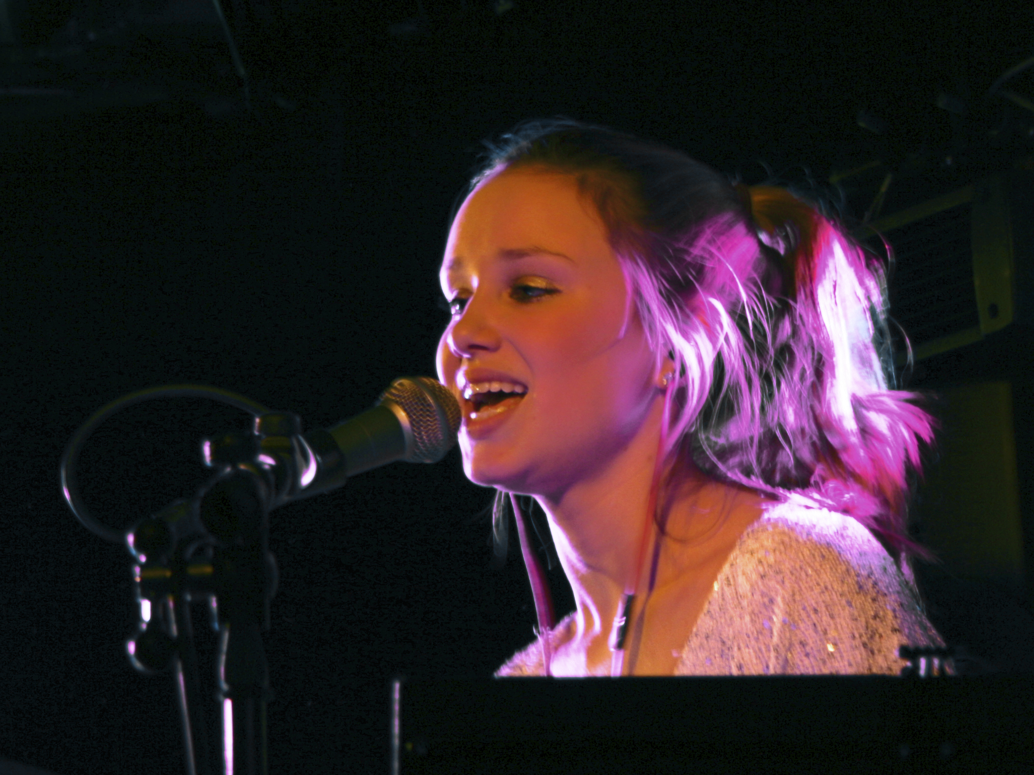 Anna Verhoeven (2012)